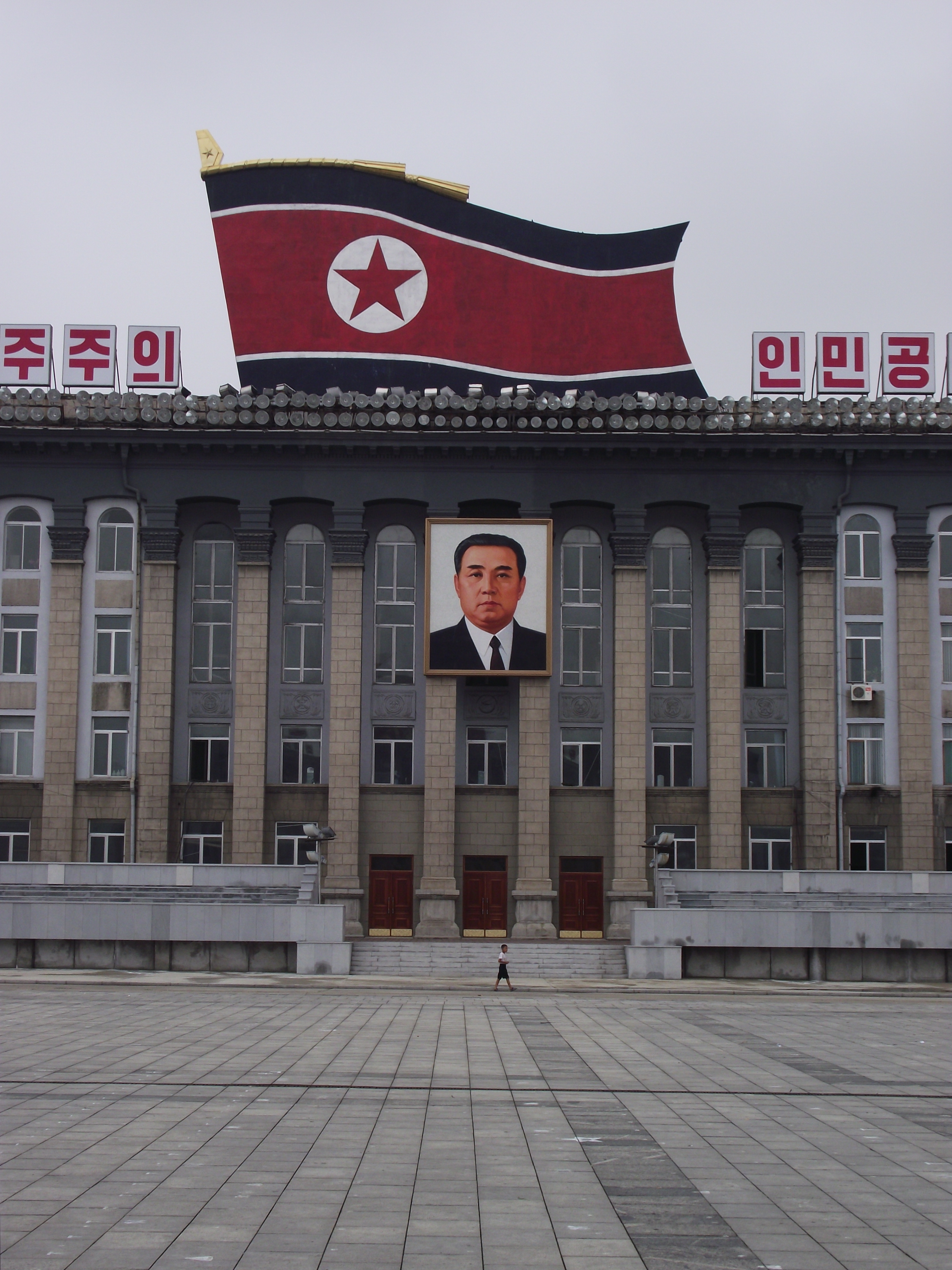 Headquarters of Workers' Party of Korea